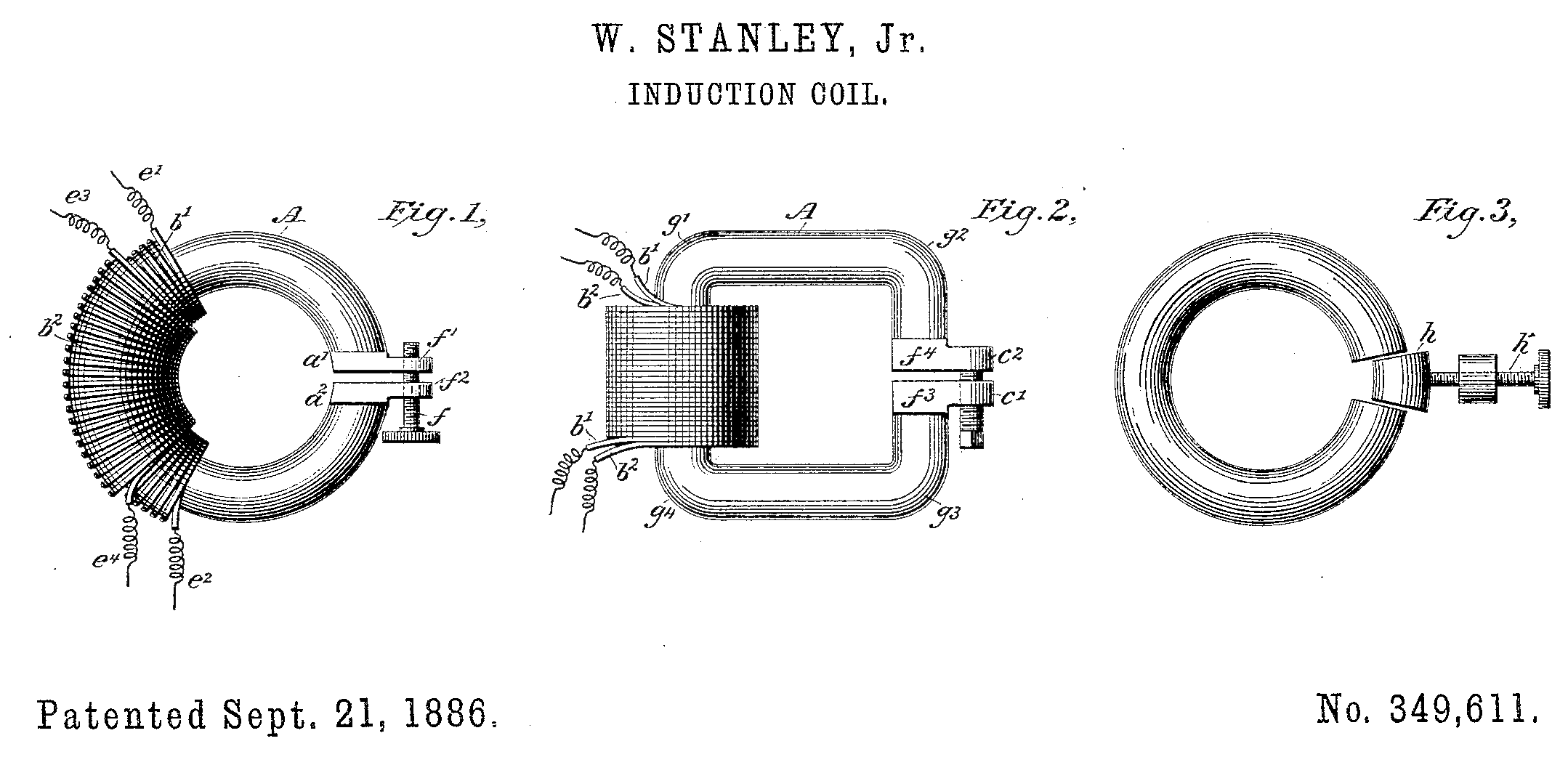 Induction coil - Sept. 21, 1886 - William Stanley